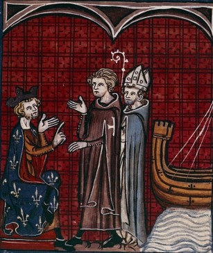 King Philip II visited by the Patriarch of Jerusalem and the Master of the Temple